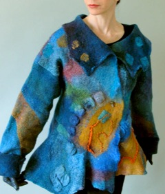 Nuno Felt Jacket by Elynn Bernstein / Amano Studios